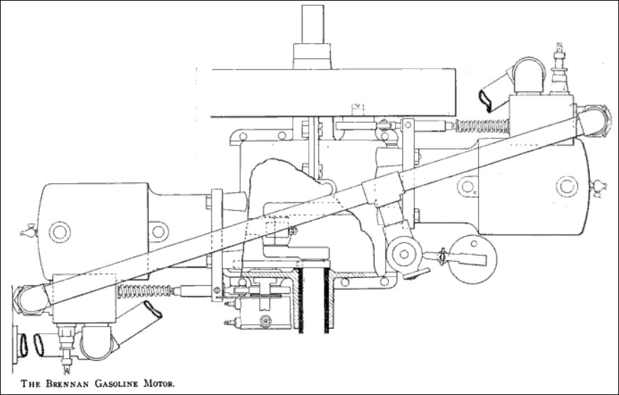 Brennan 5 horsepower, double, opposite cylinder gasoline motor is of usual four-cycle type and has a double throw crank